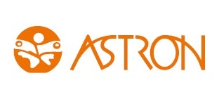 ASTRON company logo